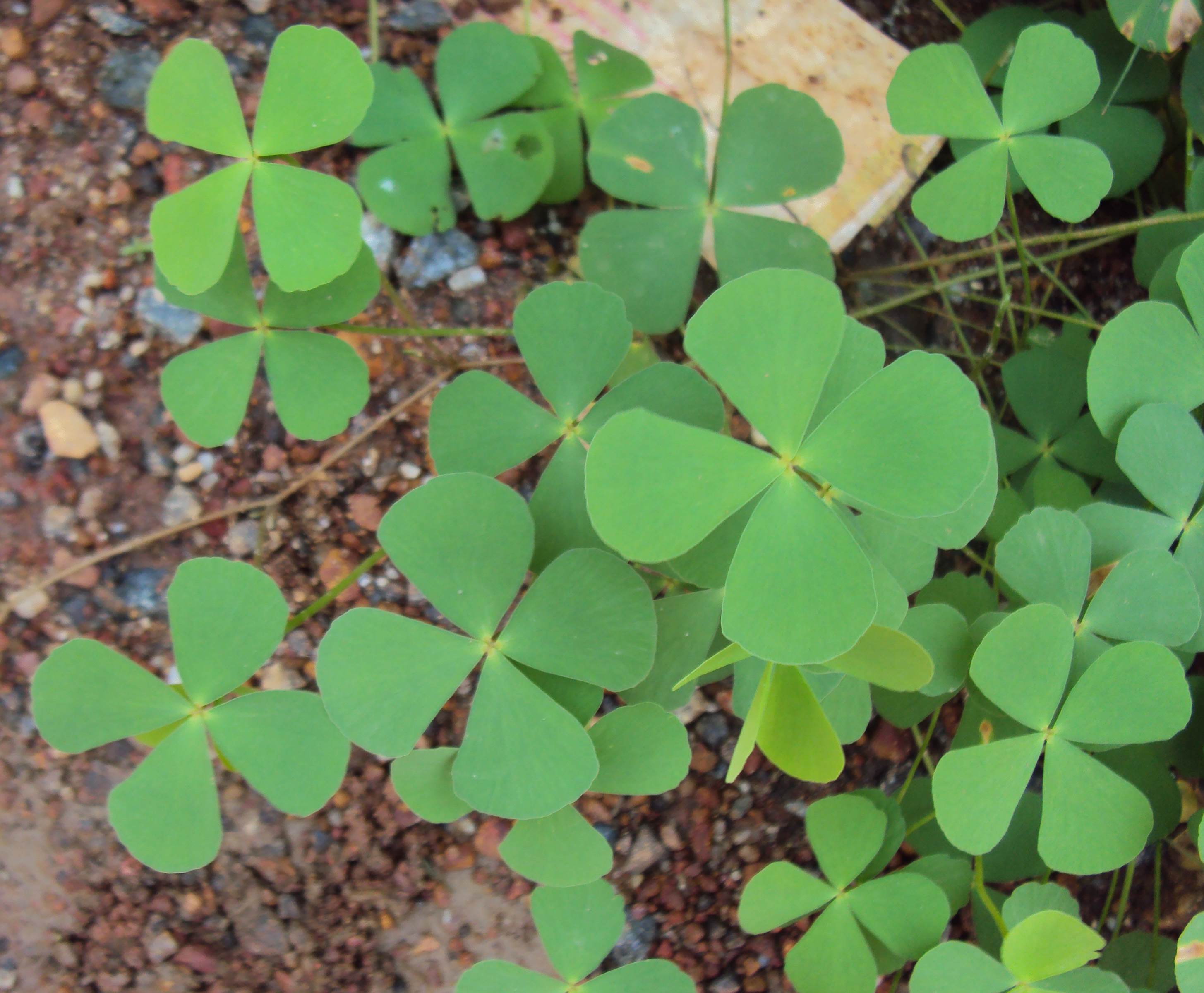 Marsilea quadrifolia